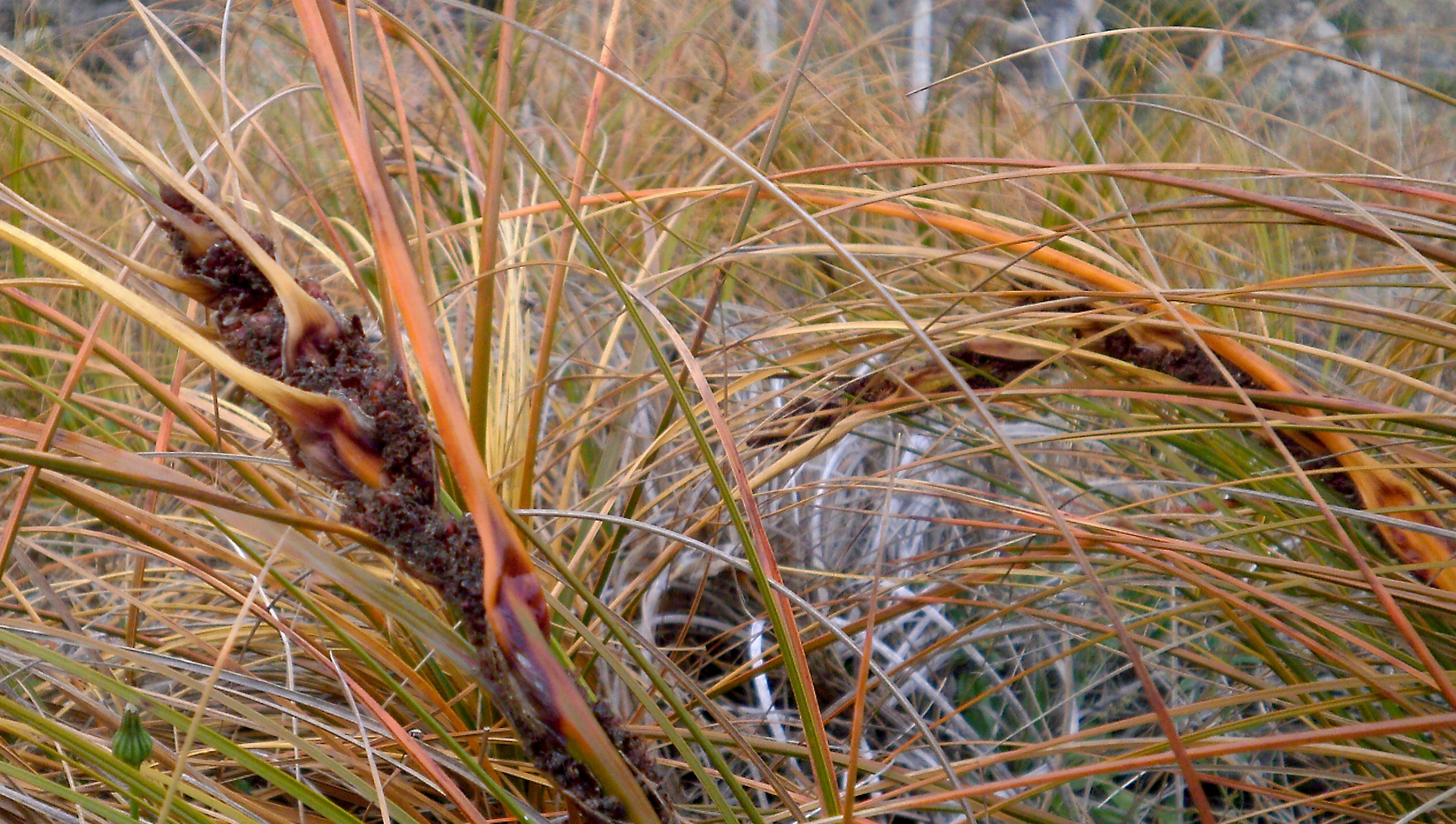 Ficinia spiralis (pīngao), showing seed head, on Wellington's south coast, New Zealand.